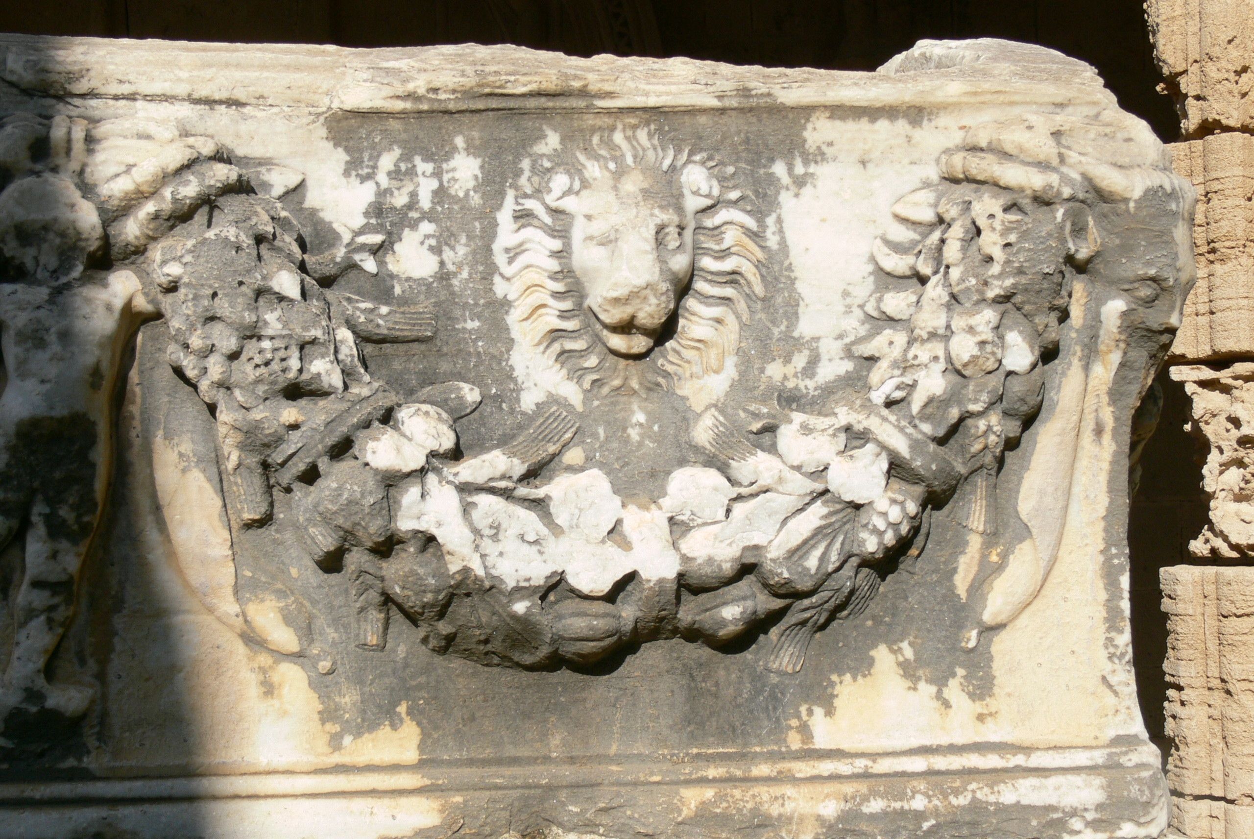 Bellapais monastery ( Northern Cyprus ). Cloisters - Ancient Roman sarcophagus ( 2nd century AD ): Lion head with festoon.